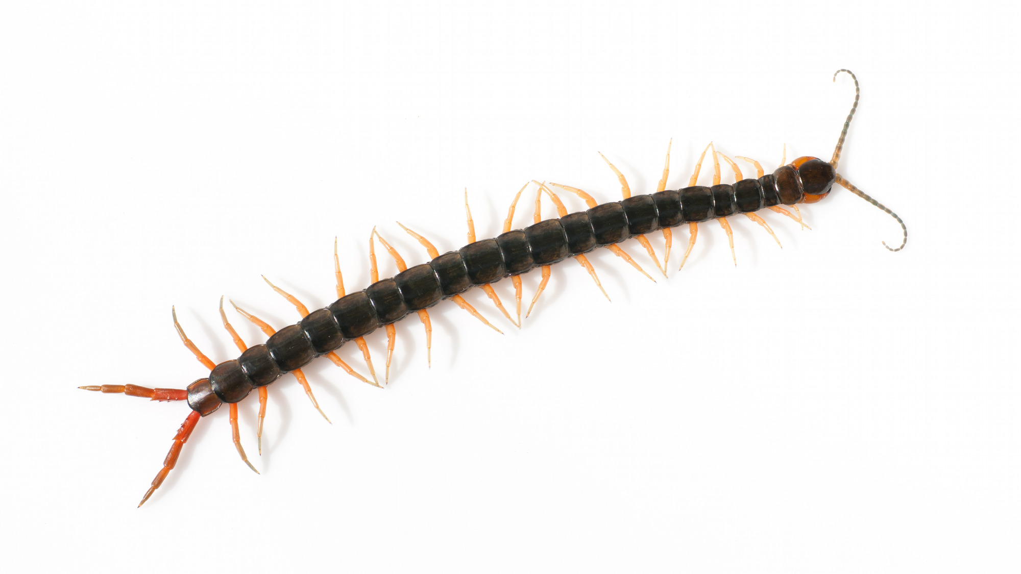 Blue headed centipede probably NOT Scolopendra subspinipes japonica